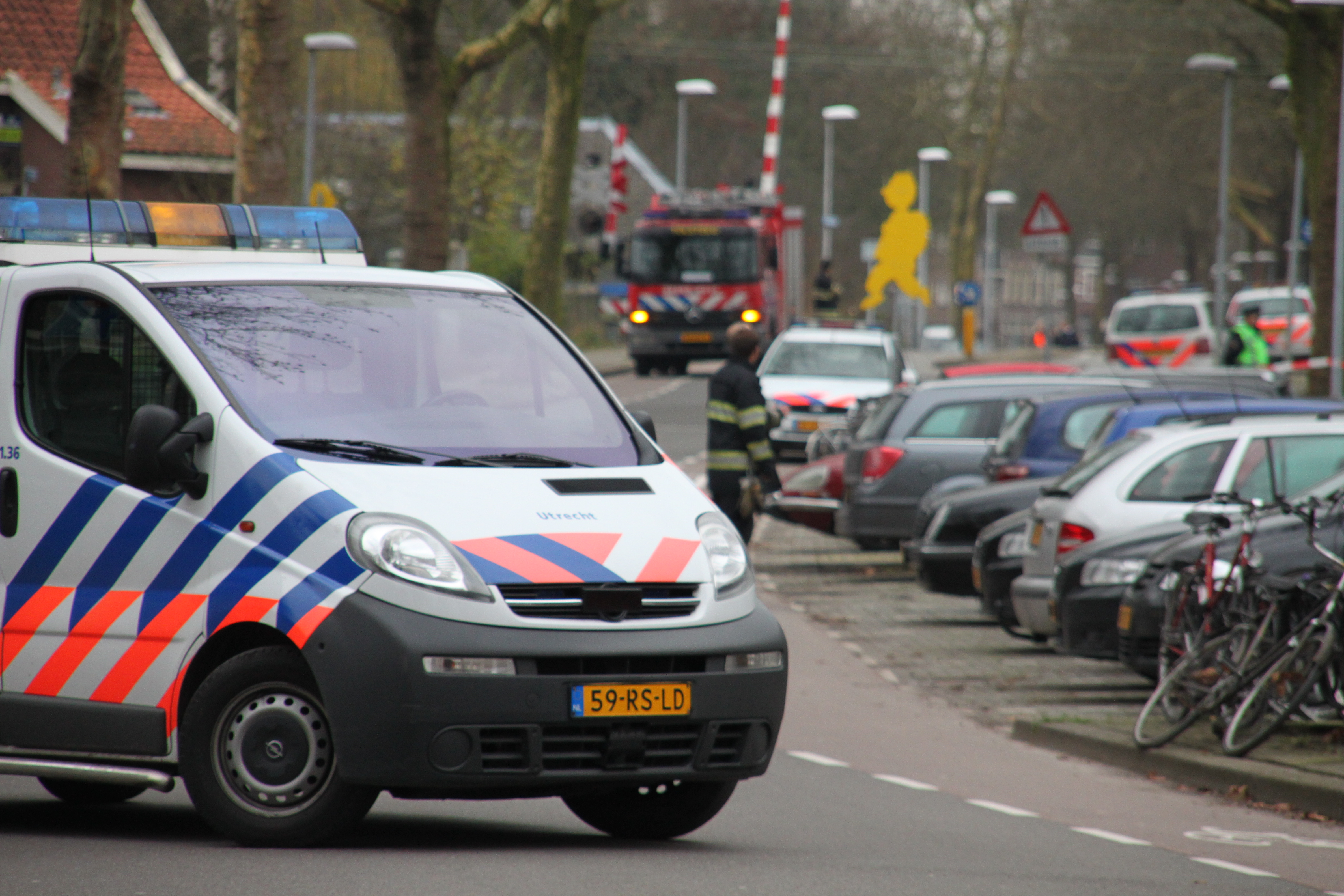 Dutch emergency services: police and firefighters